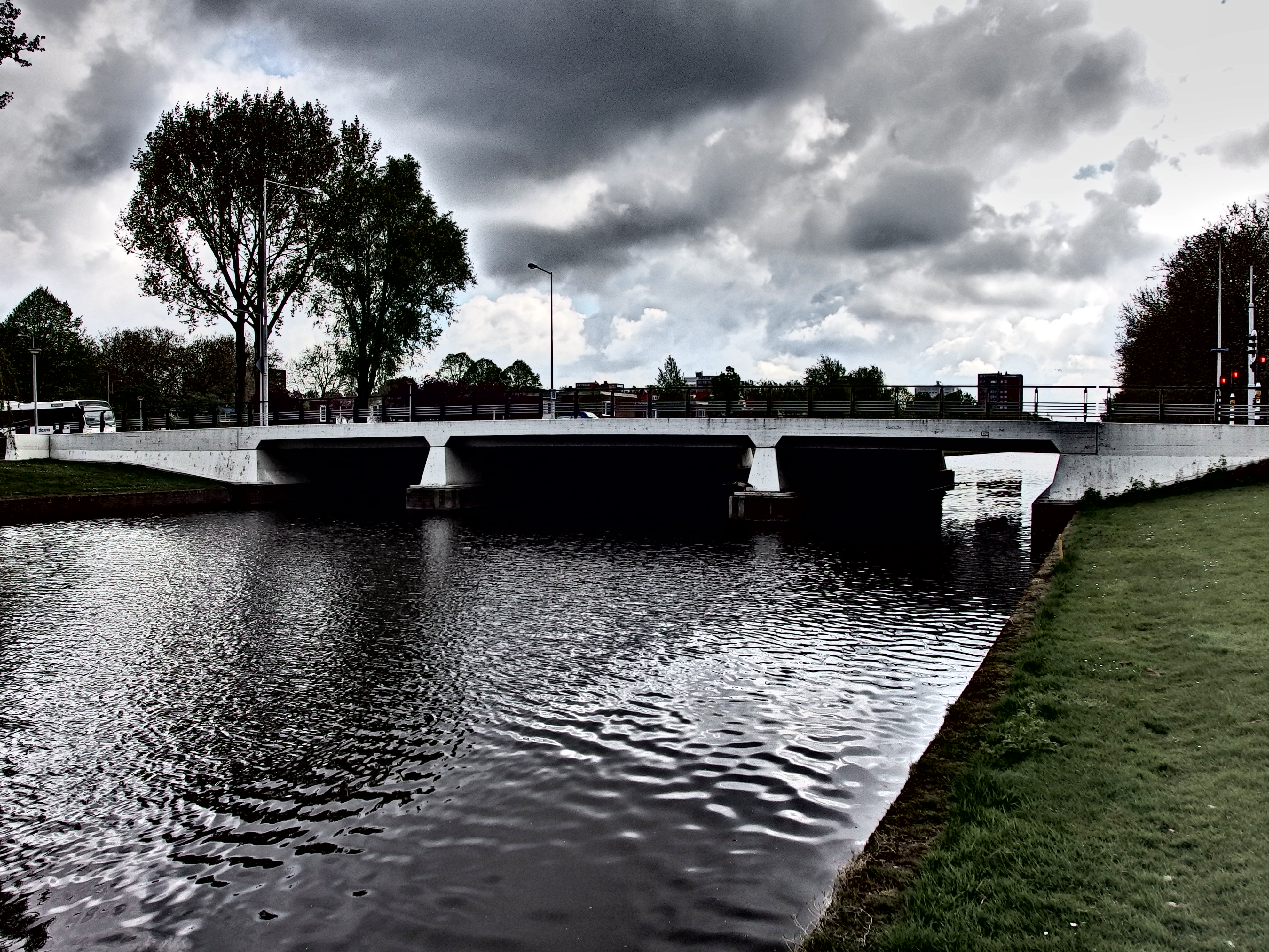 2013-05-12 in Amsterdam Nieuw-West, Slotervaart. Brug (bridge) 701 leads Johan Huizingalaan over Slotervaart (canal).